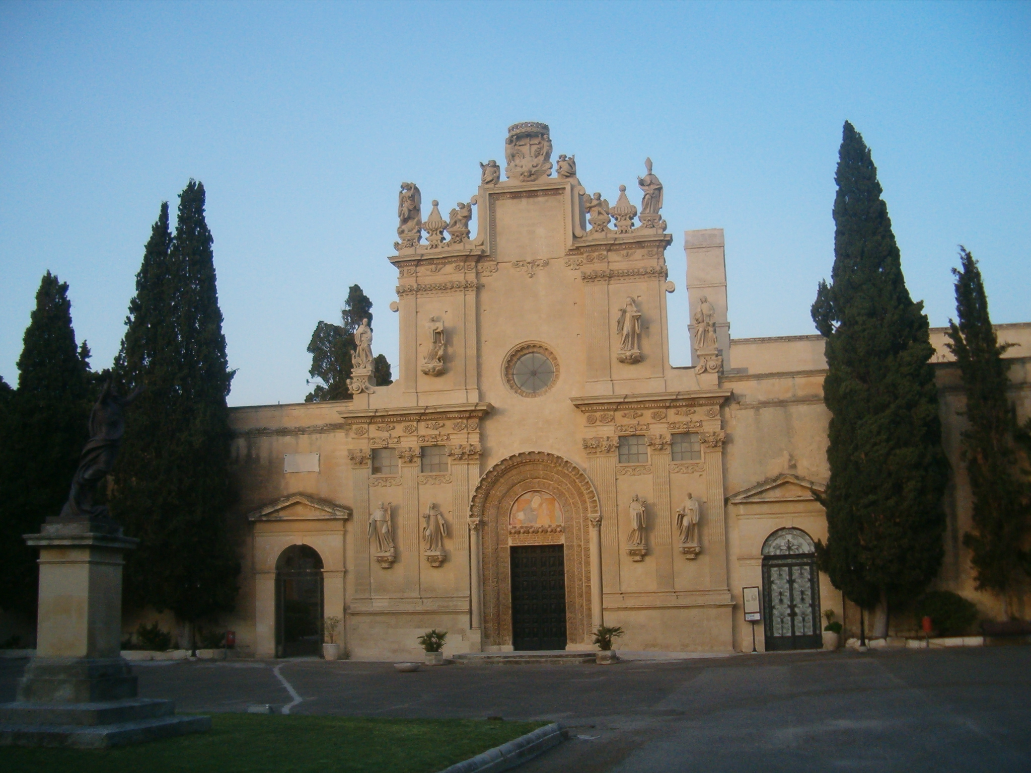 S. Niccolò and Cataldo church, in Lecce (LE, Italy)